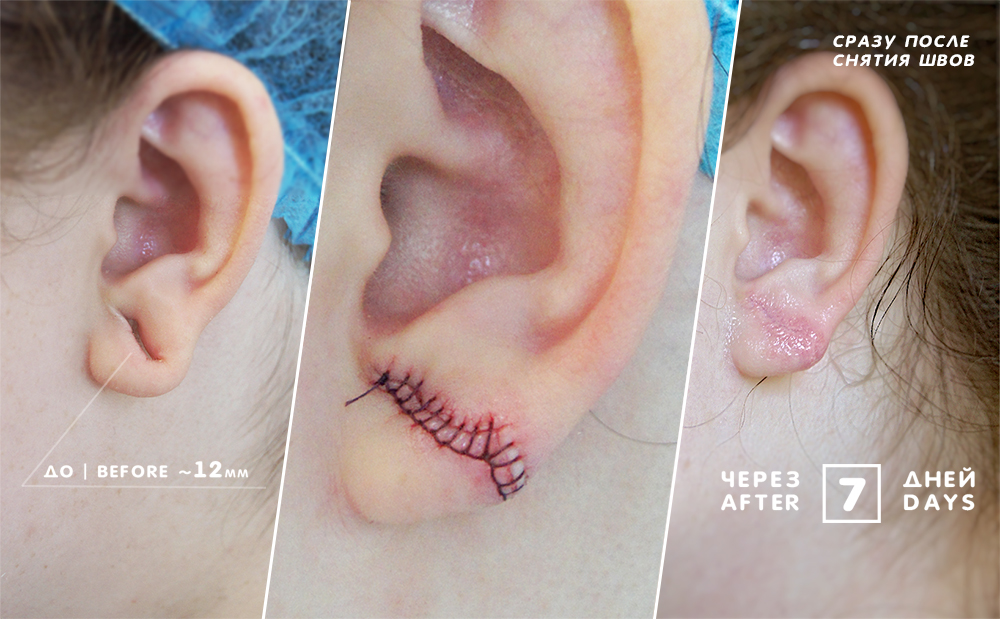 ear lobe reconstruction